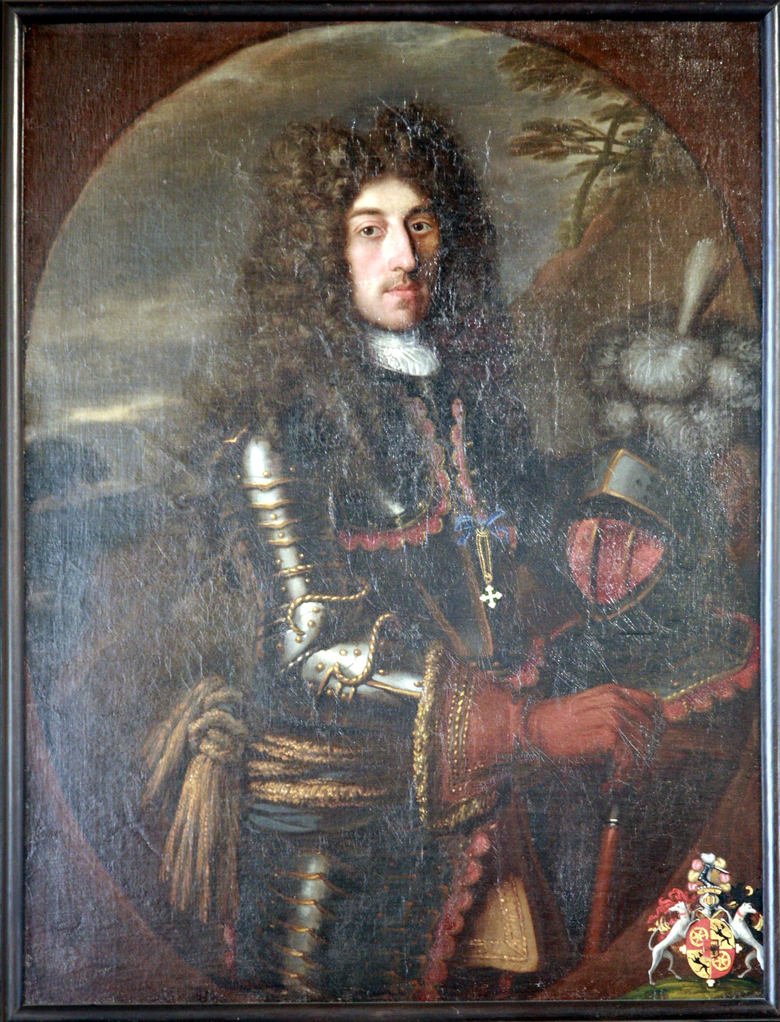 Jean Jacques Joseph d'Alt. Unknown painter, portrait made around 1704. Oil on canvas. On display at Gruyères castel.